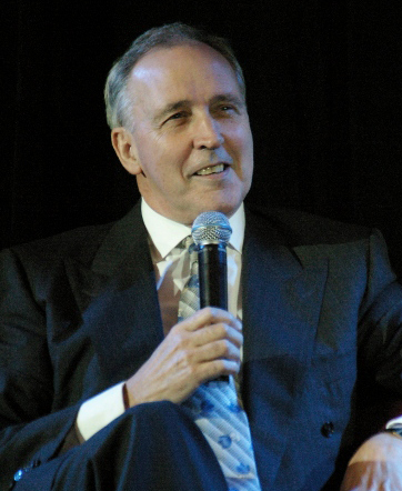 Paul Keating in 2007.